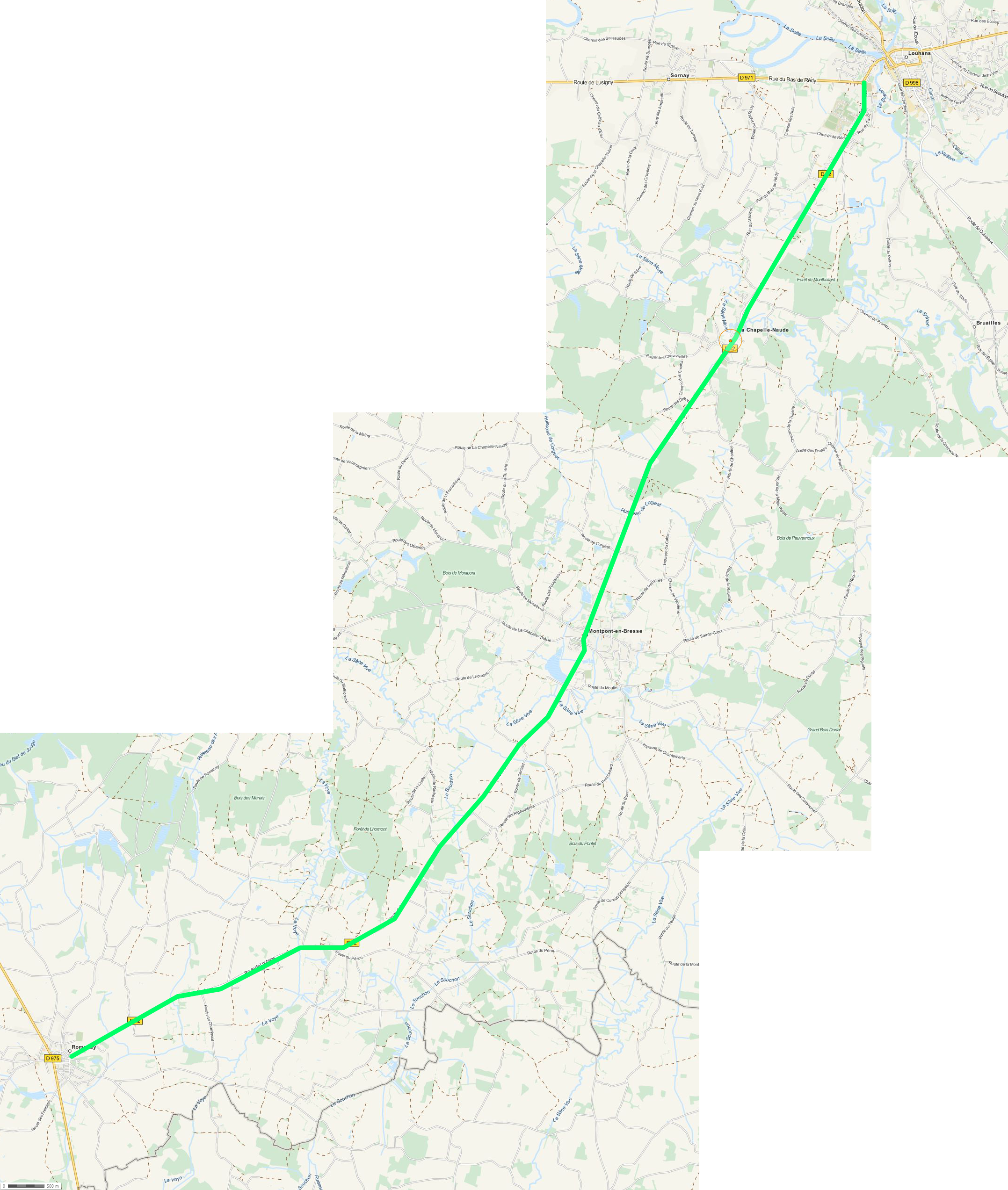 Karte der Römerstraße von Louhans nach Romenay Carte de la voie romaine de Louhans à Romenay This map may be incomplete, and may contain errors. Don't rely solely on it for navigation.